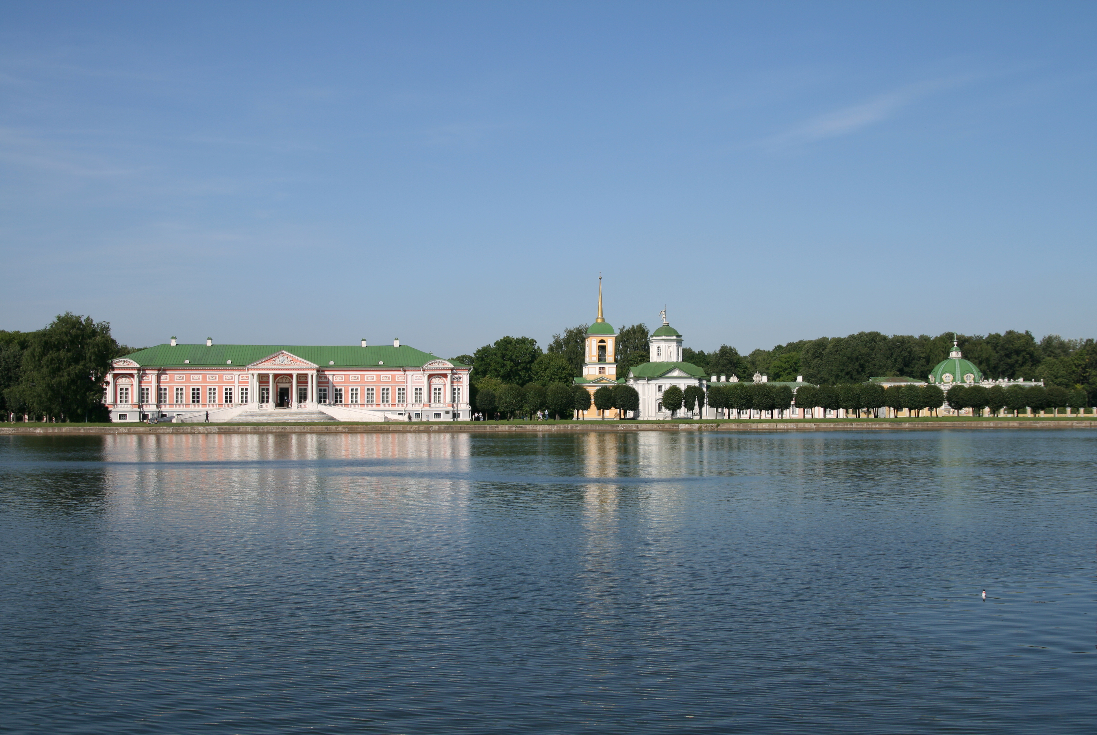 Panoramic View of Kuskovo Estate, view from the Pond, Moscow